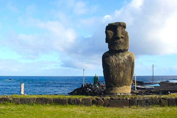 One of the famous Moai in Easter-Island